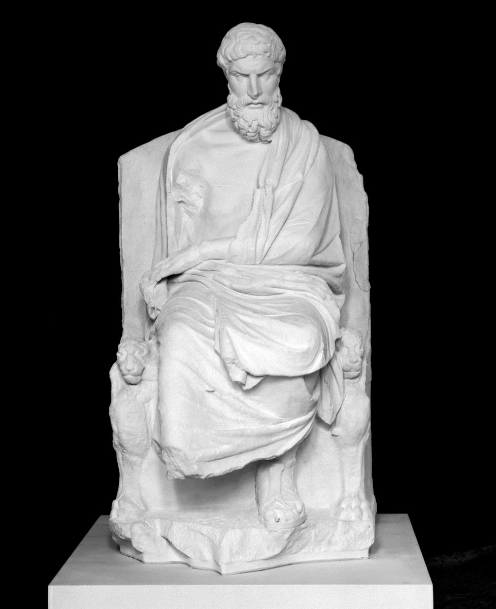 Epicurus sitting